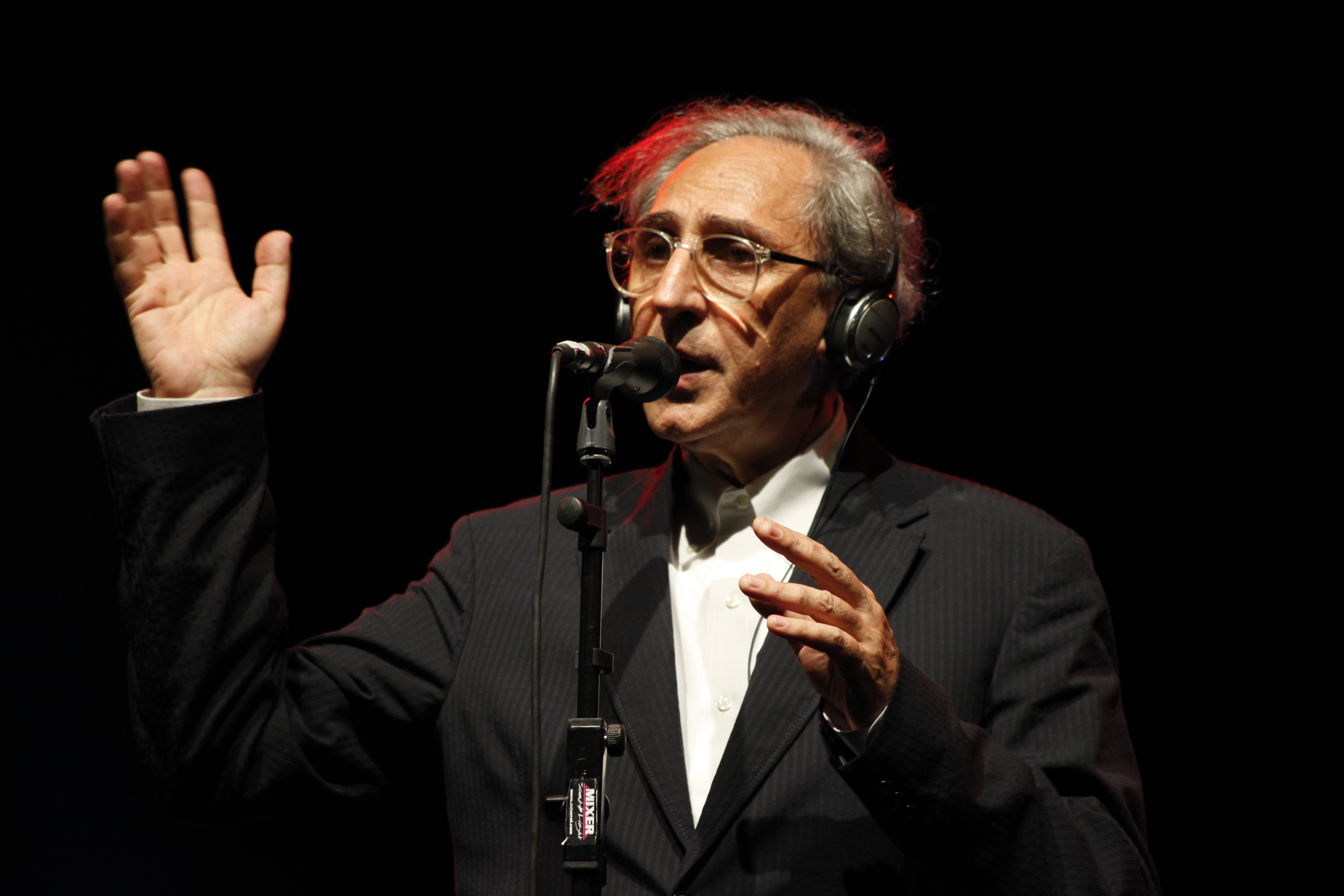 Italian singer-songwriter performing at the Festival Gaber 2010, on 23 July 2010